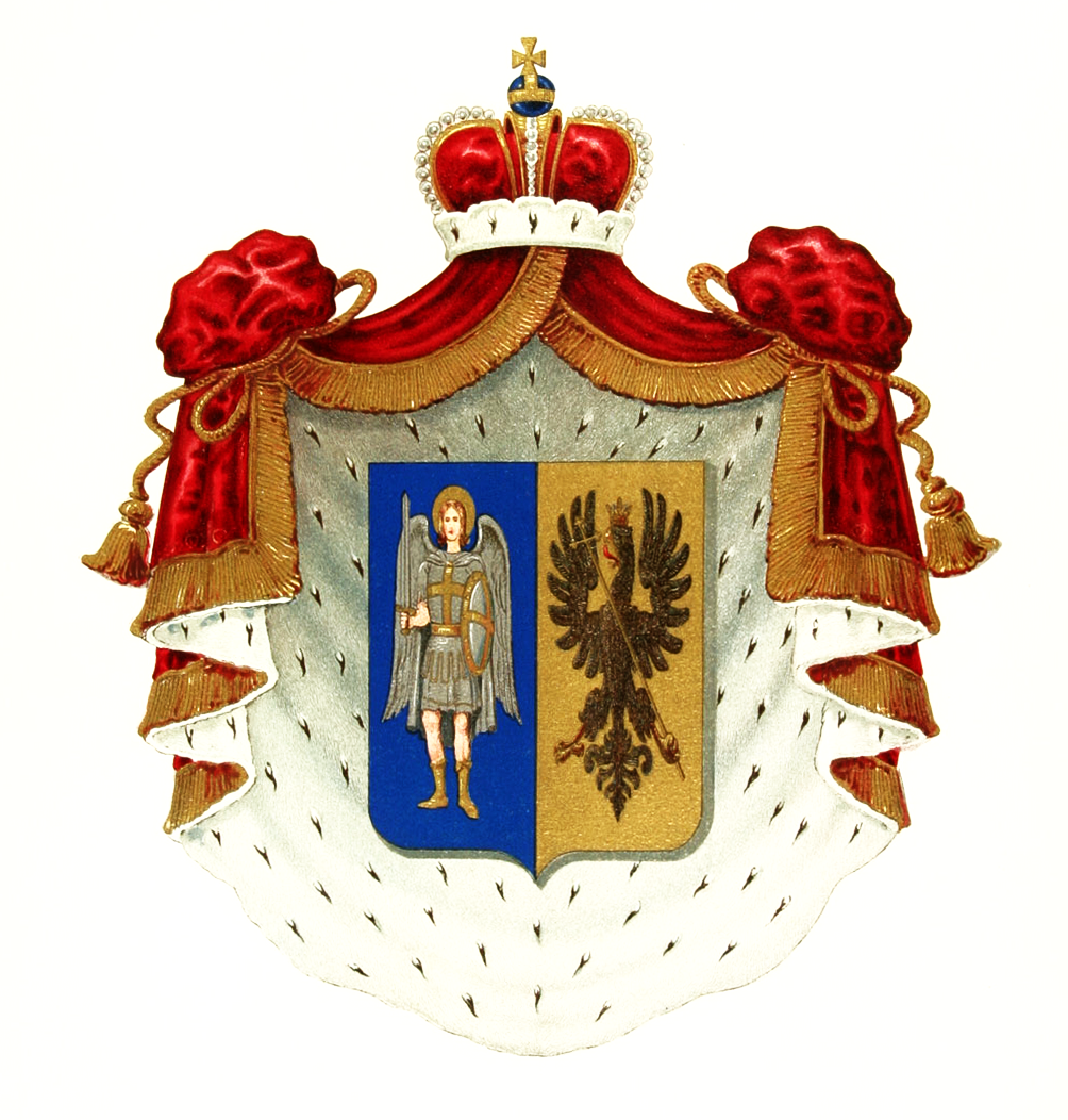 Coat of Arms of Volkonski family